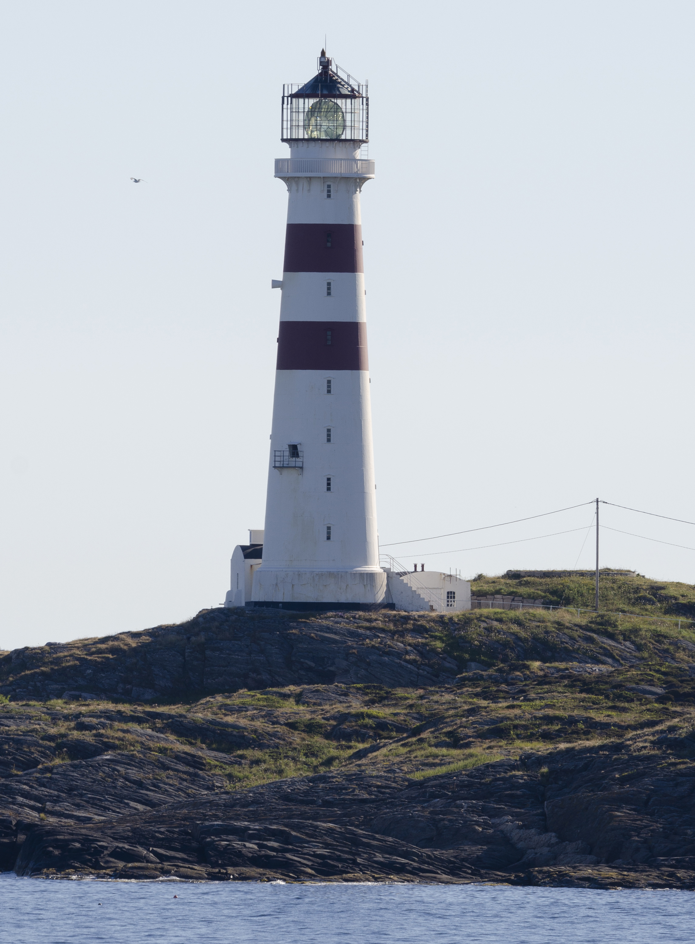 Oksøy lighthouse.